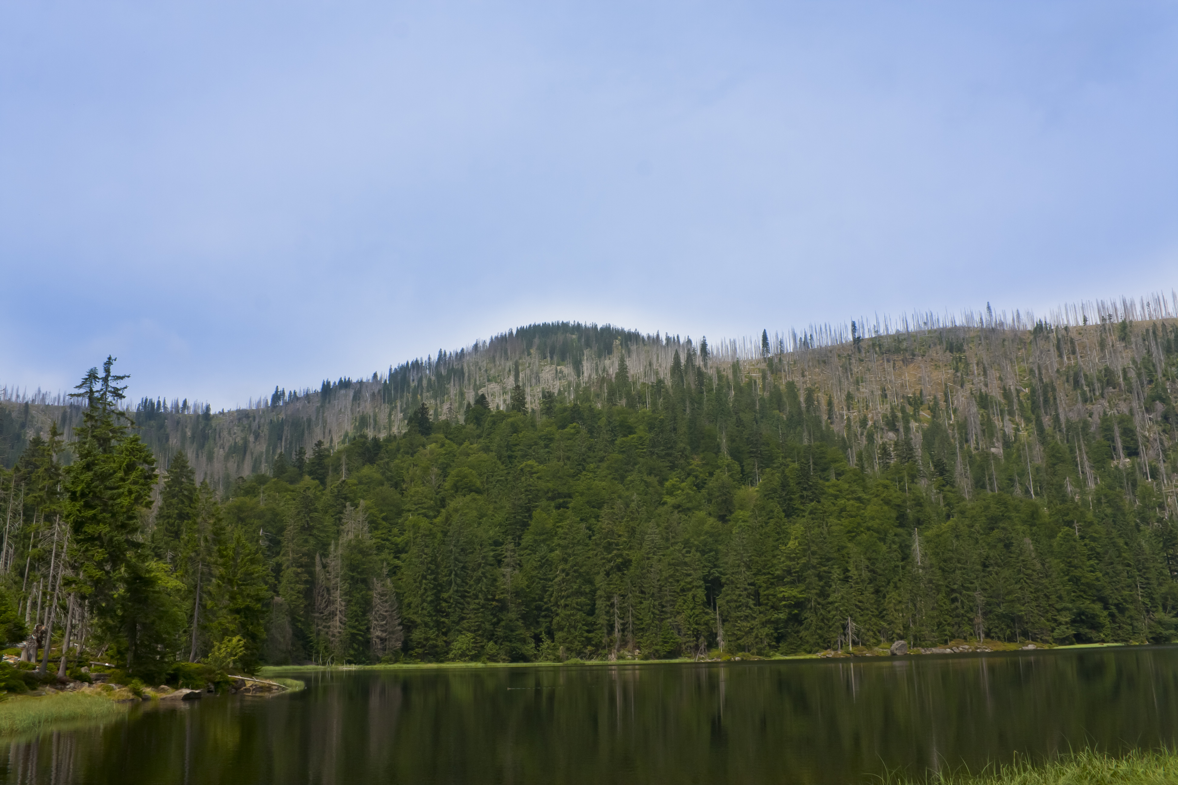 Lake Rachel, Rachel, Bavarian Forest Nationalpark